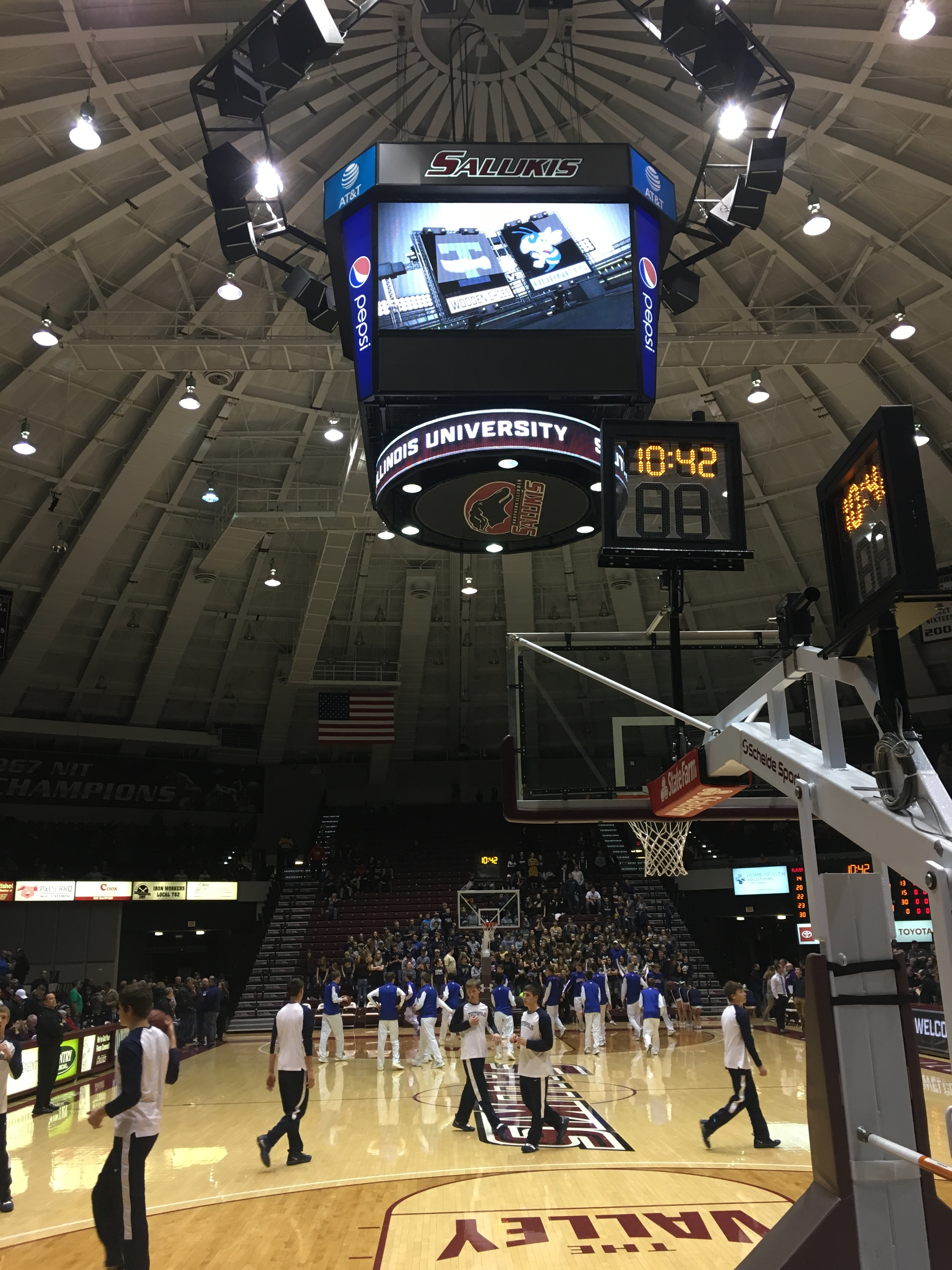 Banterra Center (then SIU Arena) prior to a IHSA Super Sectional Game